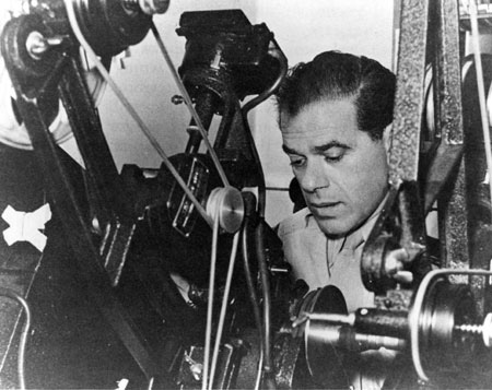 Frank Capra cuts Army film as a Signal Corps Reserve major during World War II. (This photo taken circa 1943.)